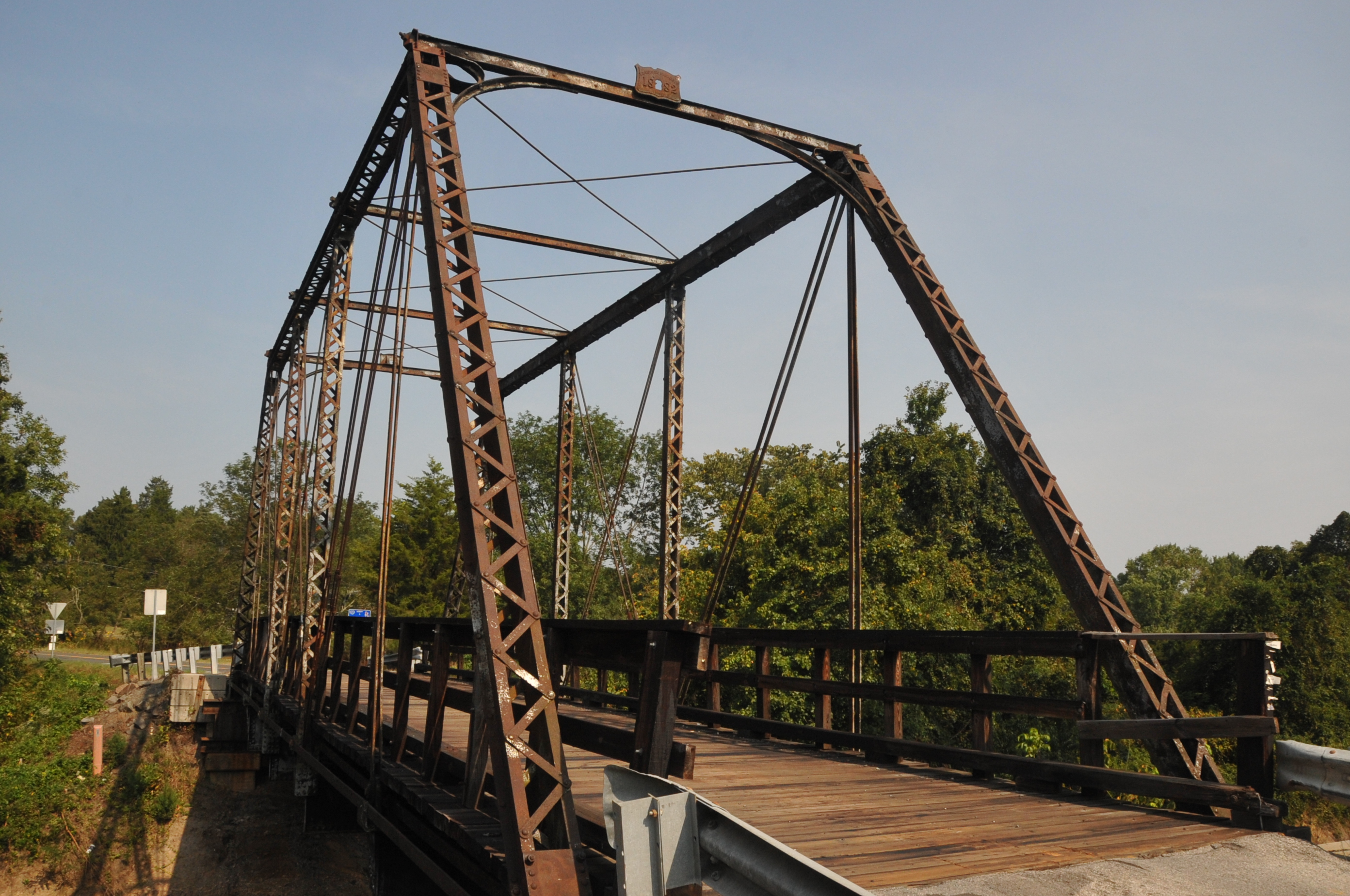 125 YEAR OLD BRIDGE OVER THE RAILROAD TRACKS OF THE NORFOLK AND SOUTHERN RAILROAD